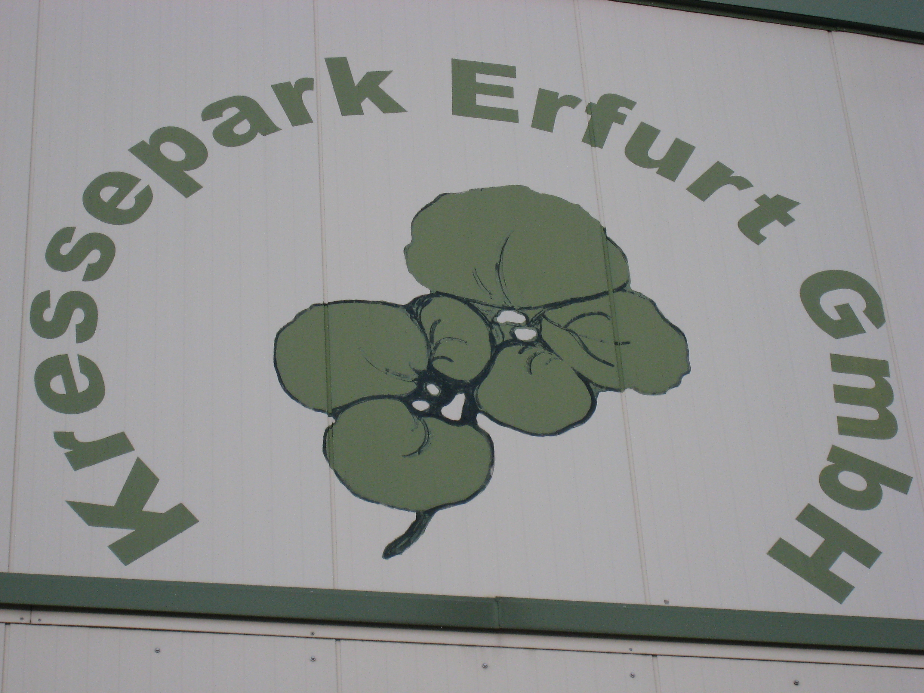 Kressepark Erfurt